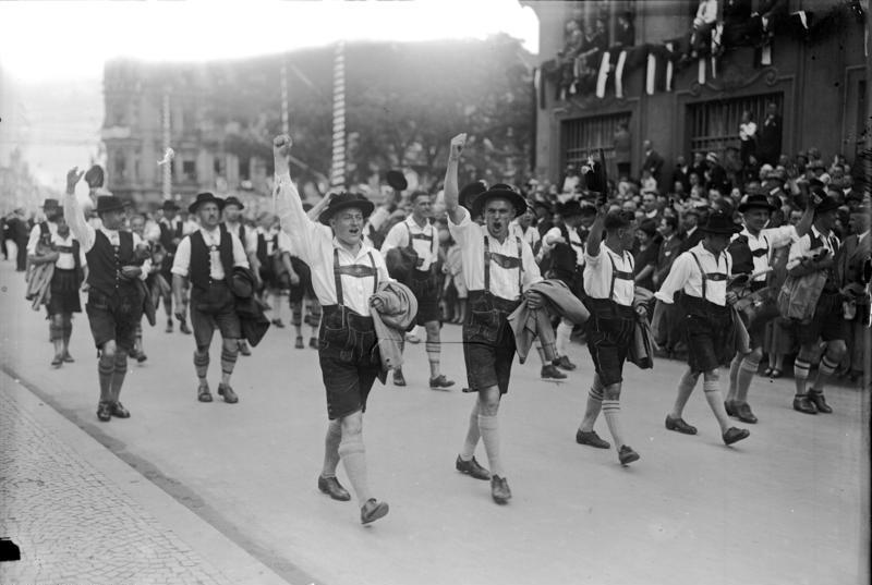 (translation of original description) Cologne, procession to the German gymnastics festival The great procession of 200,000 gymnasts through the streets of Cologne. The delegation of Tyrolean gymnastic associations in procession through the festively decorated city.